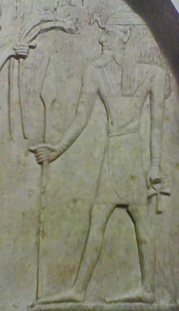 Photo of the Canaanite god Resheph (Reshep, Reshpu, Reshef) from the “Min – Qeteshet – Reshef” stele displayed at the Asian Art Museum in San Francisco, CA taken:9-1-2011